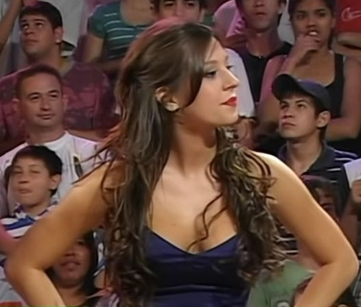 Noelia Marzol en el último programa de 3,2,1 a ganar en 2010